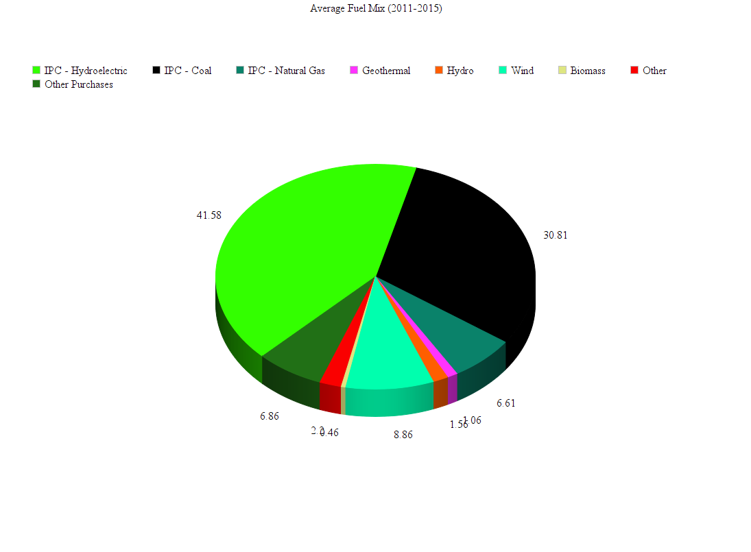 The fuel mix for Idaho Power's resource portfolio under average conditions is shown.